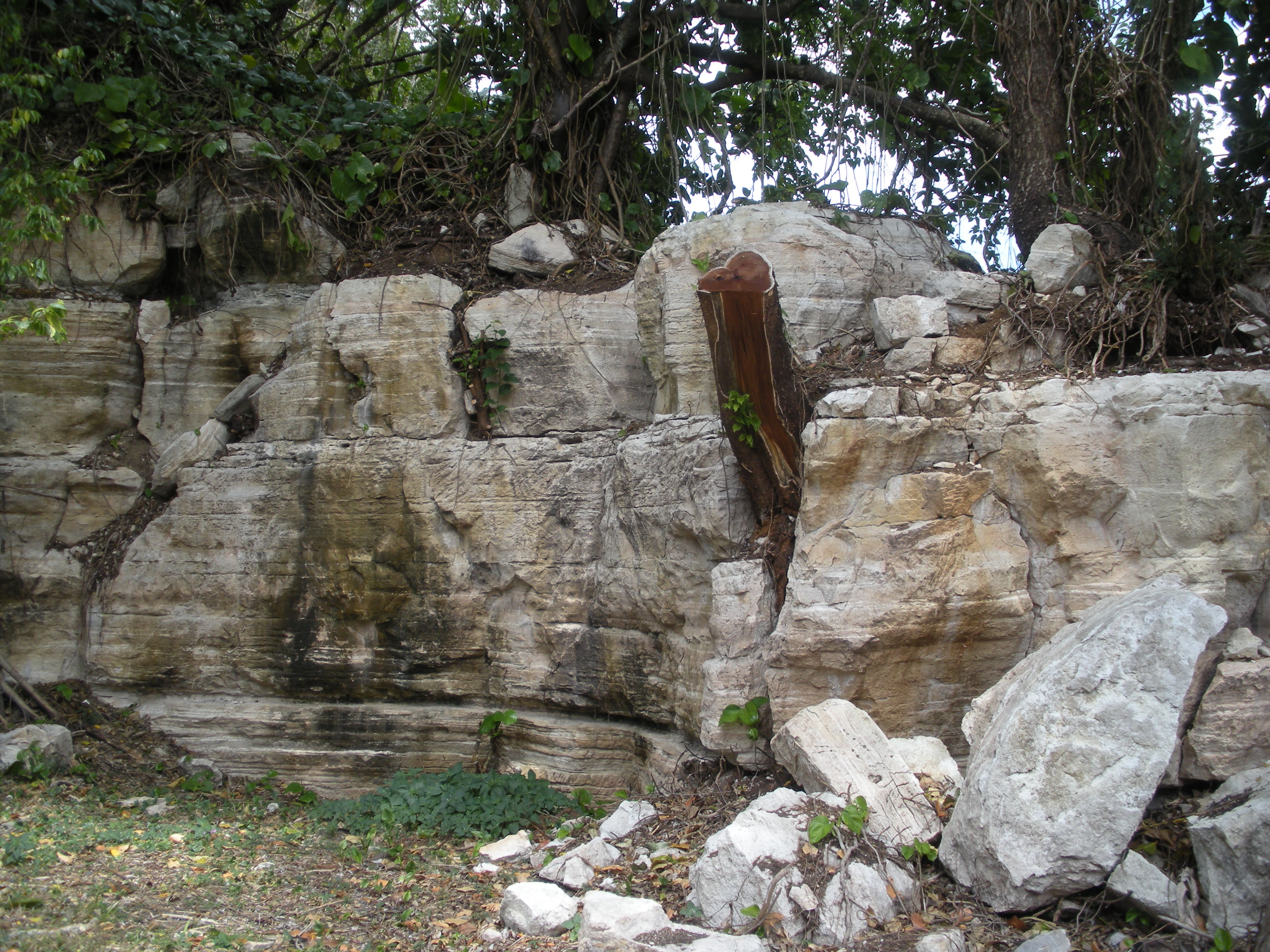 Ross stone in Japan Bonin Islands Hahajima